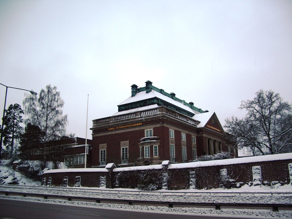 Main building of the Royal Swedish Academy of Sciences, Frescati, Norra Djurgården, Stockholm.